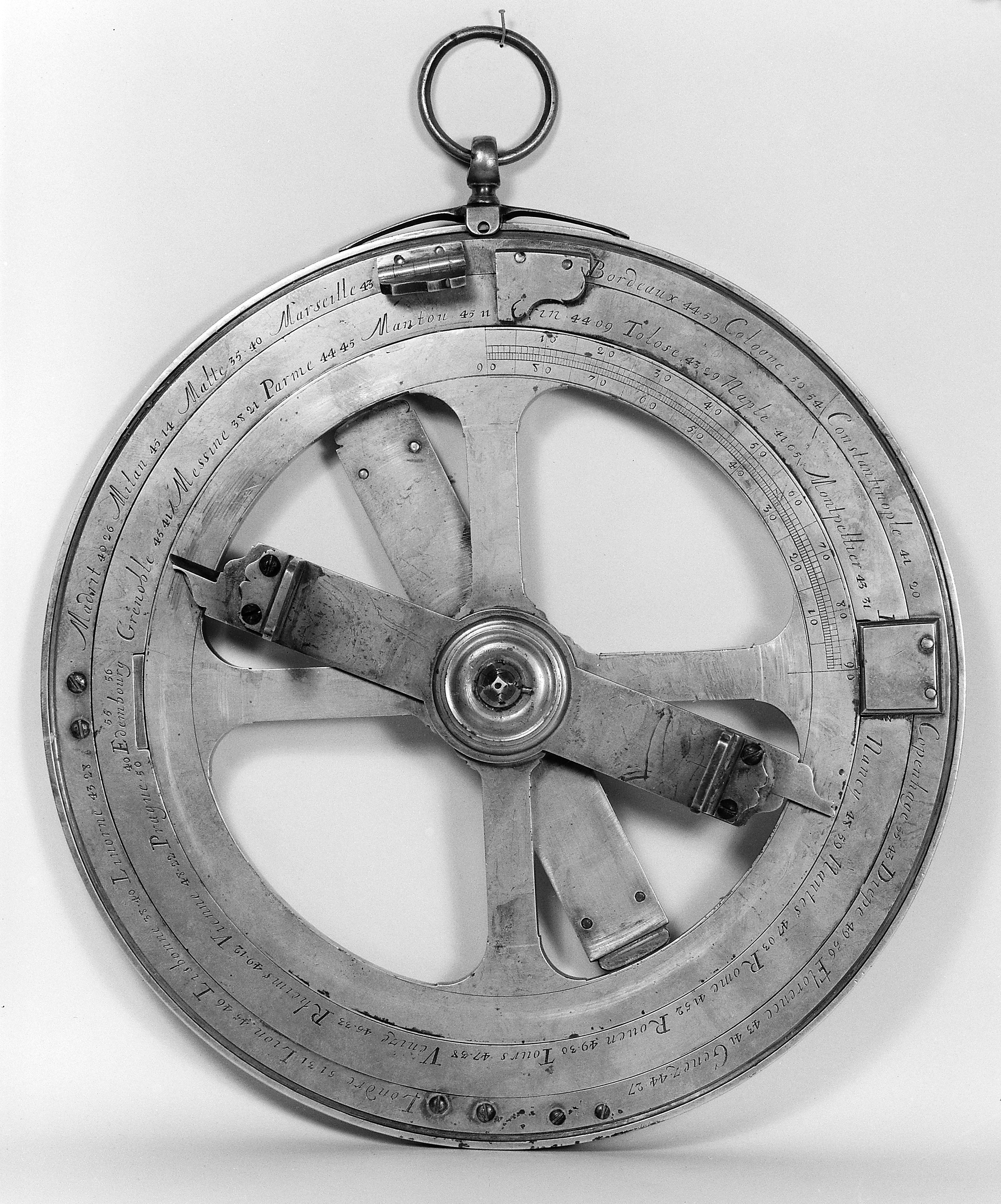 Astronomical Ring of an unusual type, signed "Butterfield Paris". Showing the opposite side of the instrument to that on which Butterfield's signature occurs. Undated, circa 1690. This instrument is closer to an equinoctial ring dial than most astronomical rings. Wellcome Images Keywords: Physics